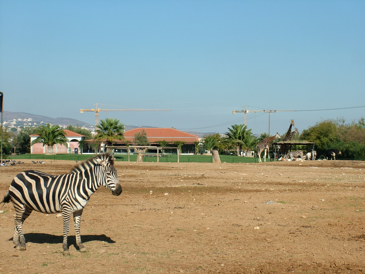 Athens Zoological park